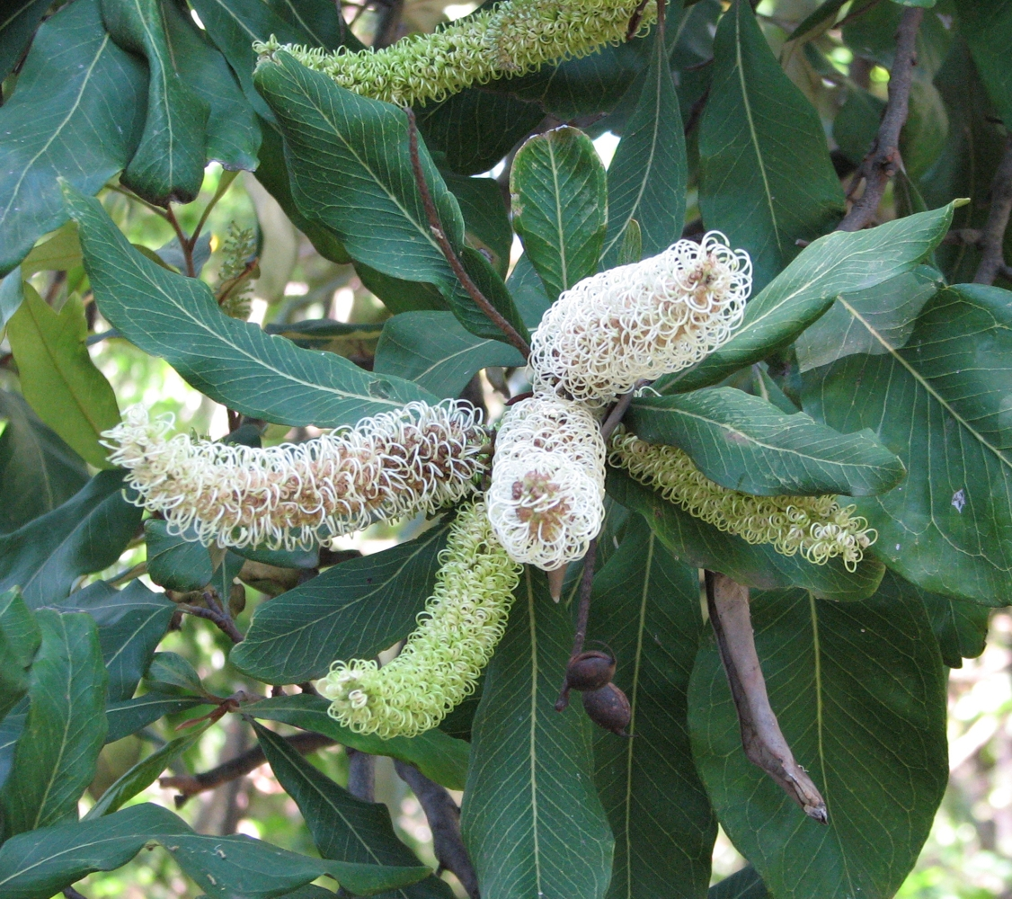 Grevillea hilliana (cultivated, labelled) Royal Botanic Gardens, Melbourne